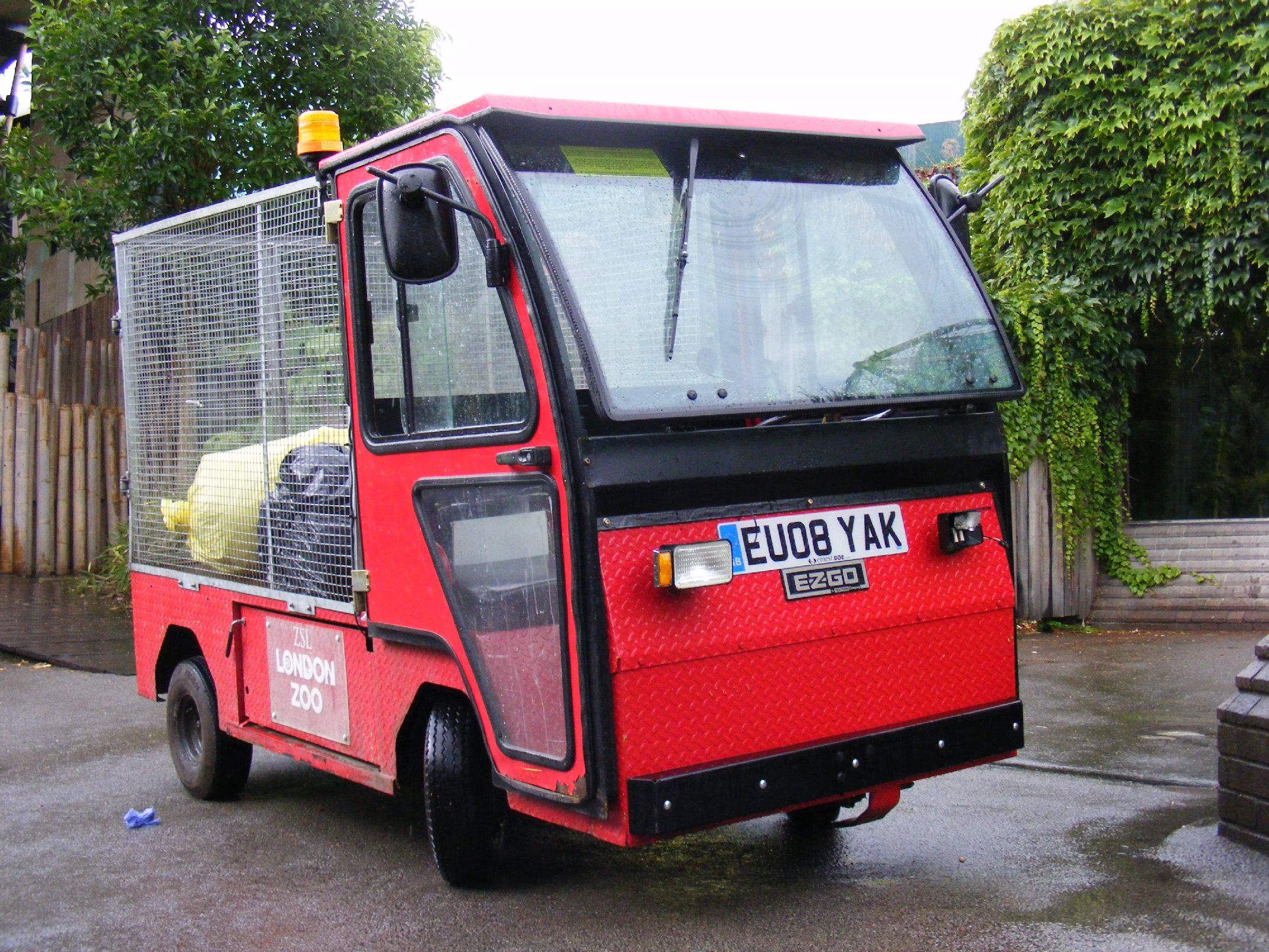 Appropriate registration.Otherregistrations which they could consider might be GNU. Unlicensed, but full rate would be GBP165. seems a bit steep for an electric vehicle. This vehicle was purchased from the Esher (not Ulting,Maldon hence the Essex registration) branch of Ernest Doe & Sons. See here The vehicle is powered by a 48 volt electric motor (36 volt optional also), made by the US firm E-Z-GO, a subsidiary of Textron Inc.